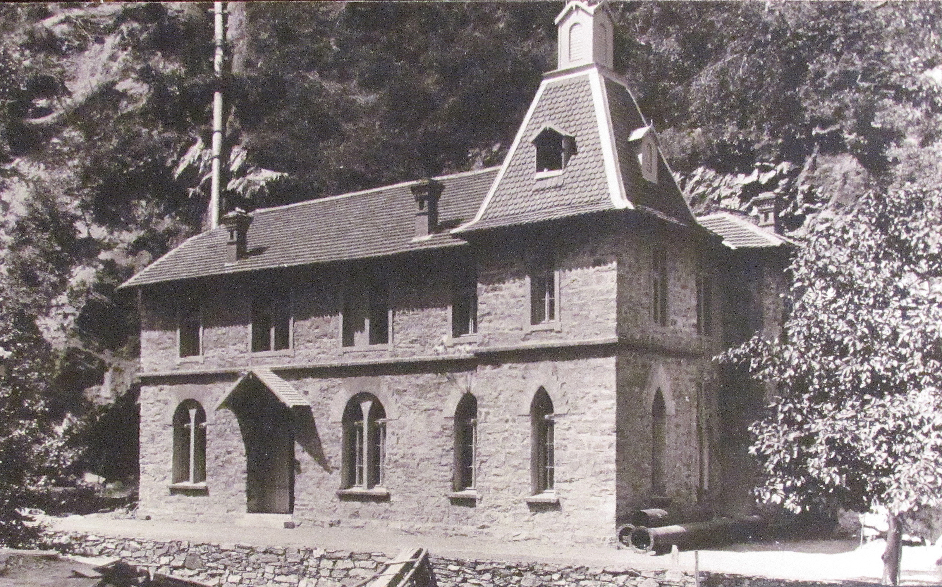 Hydroelectric power station Vucje, 1903